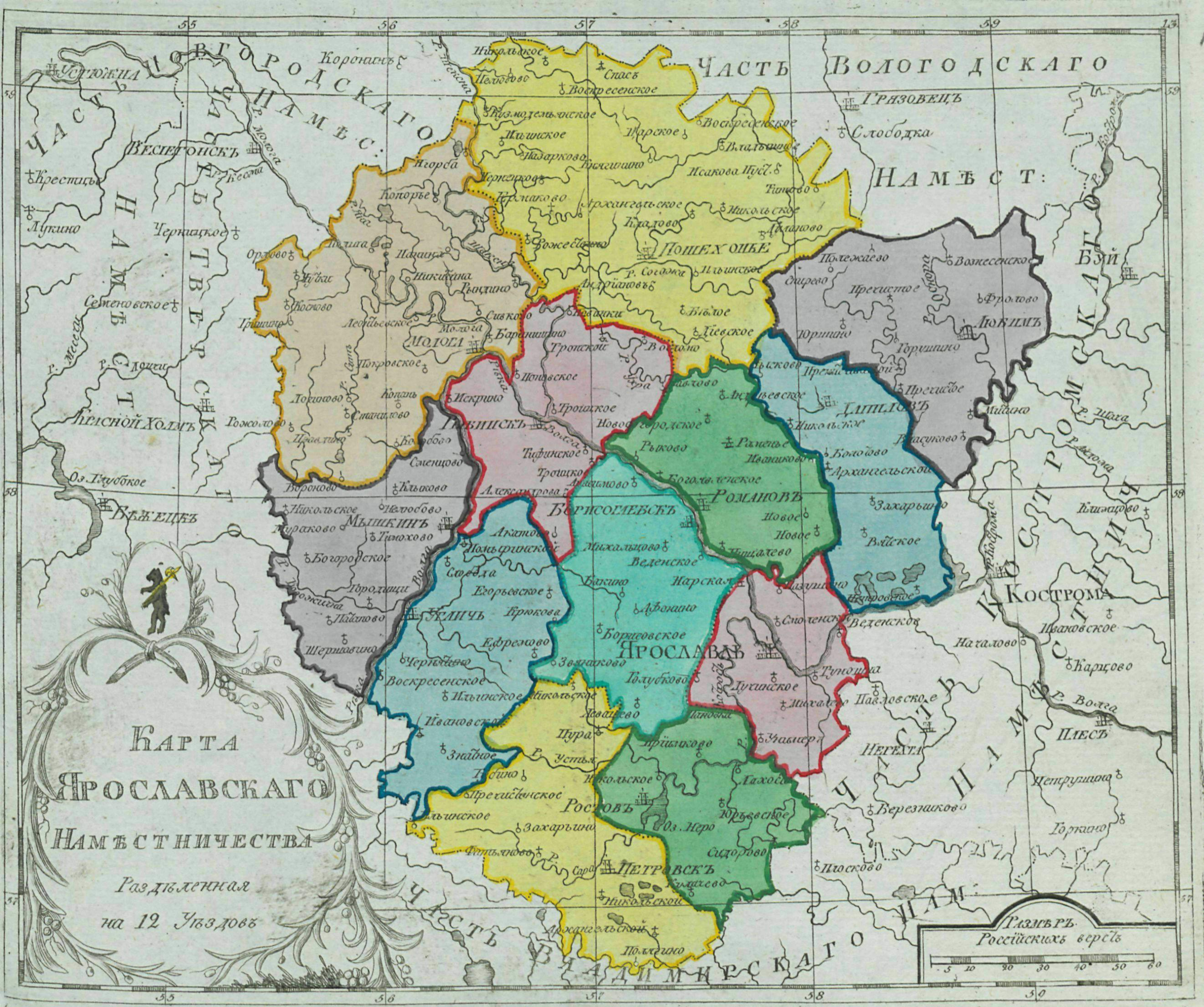 Small atlas of the Russian Empire (1792). Map of Yaroslavl Namestnichestvo (map 12).